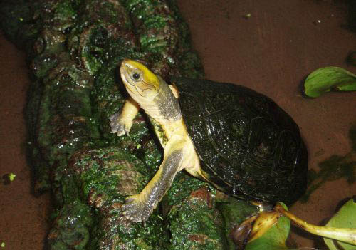 Cuora (pani) aurocapitata female by Torsten Blanck